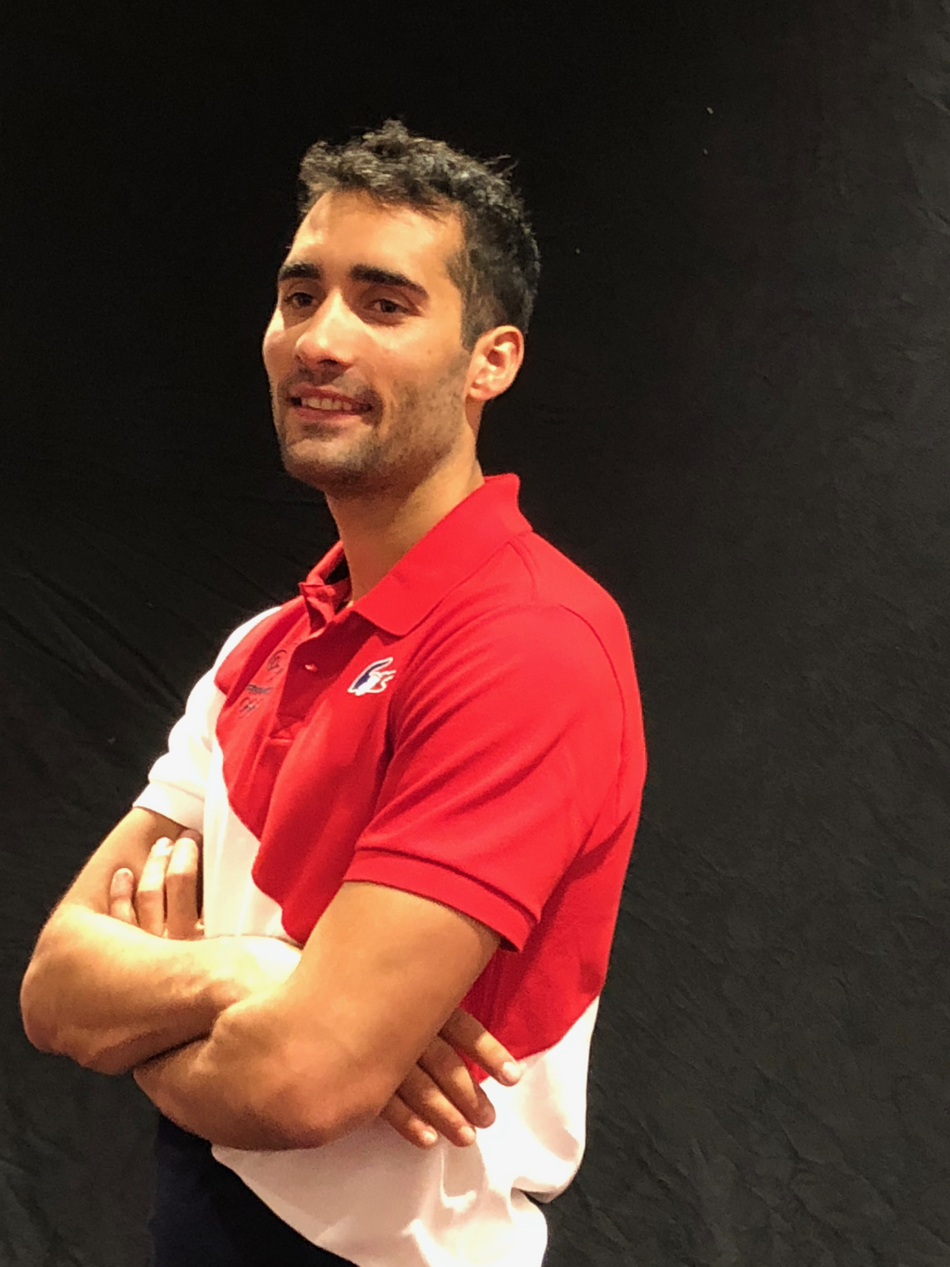 Martin Fourcade, Paris, october 4th 2017